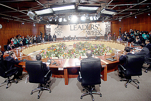 PERU, LIMA. The meeting of the heads of state and government of the Asia-Pacific Economic Cooperation (APEC).